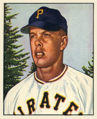 Major League Baseball player Cliff Chambers in 1950.